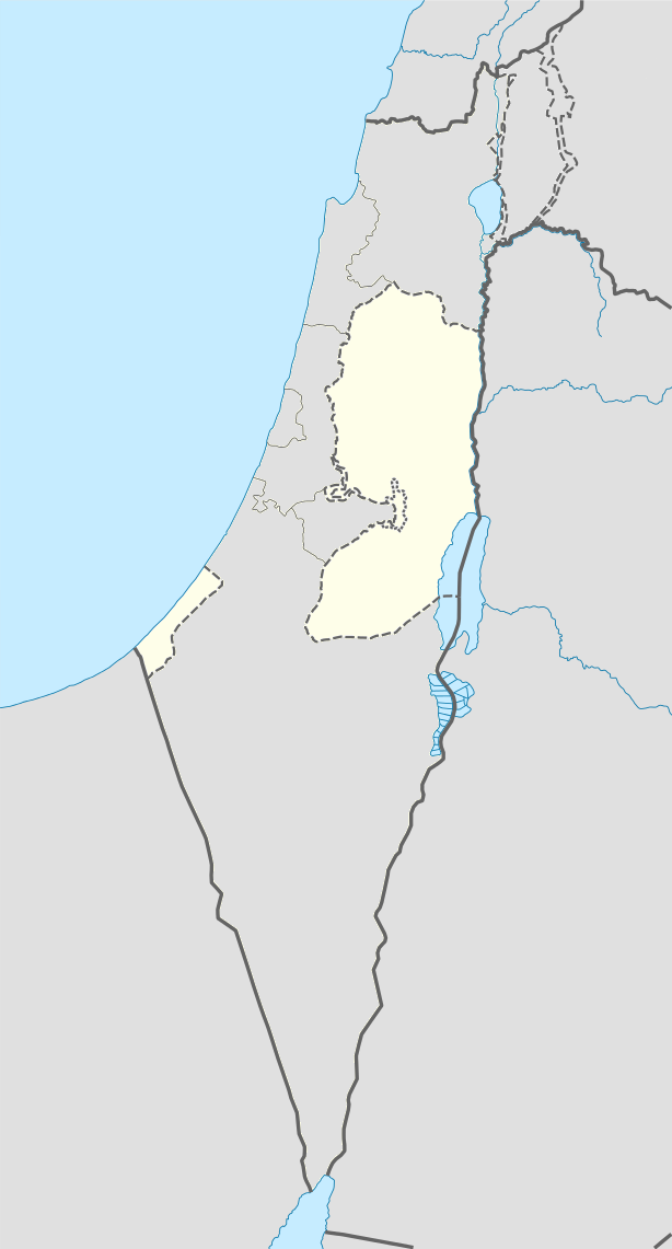 West Bank area with wider view for better perspective. longitude 33.7 to 36.3 and latitude 33.5 to 29.3. Change in fill colour only.